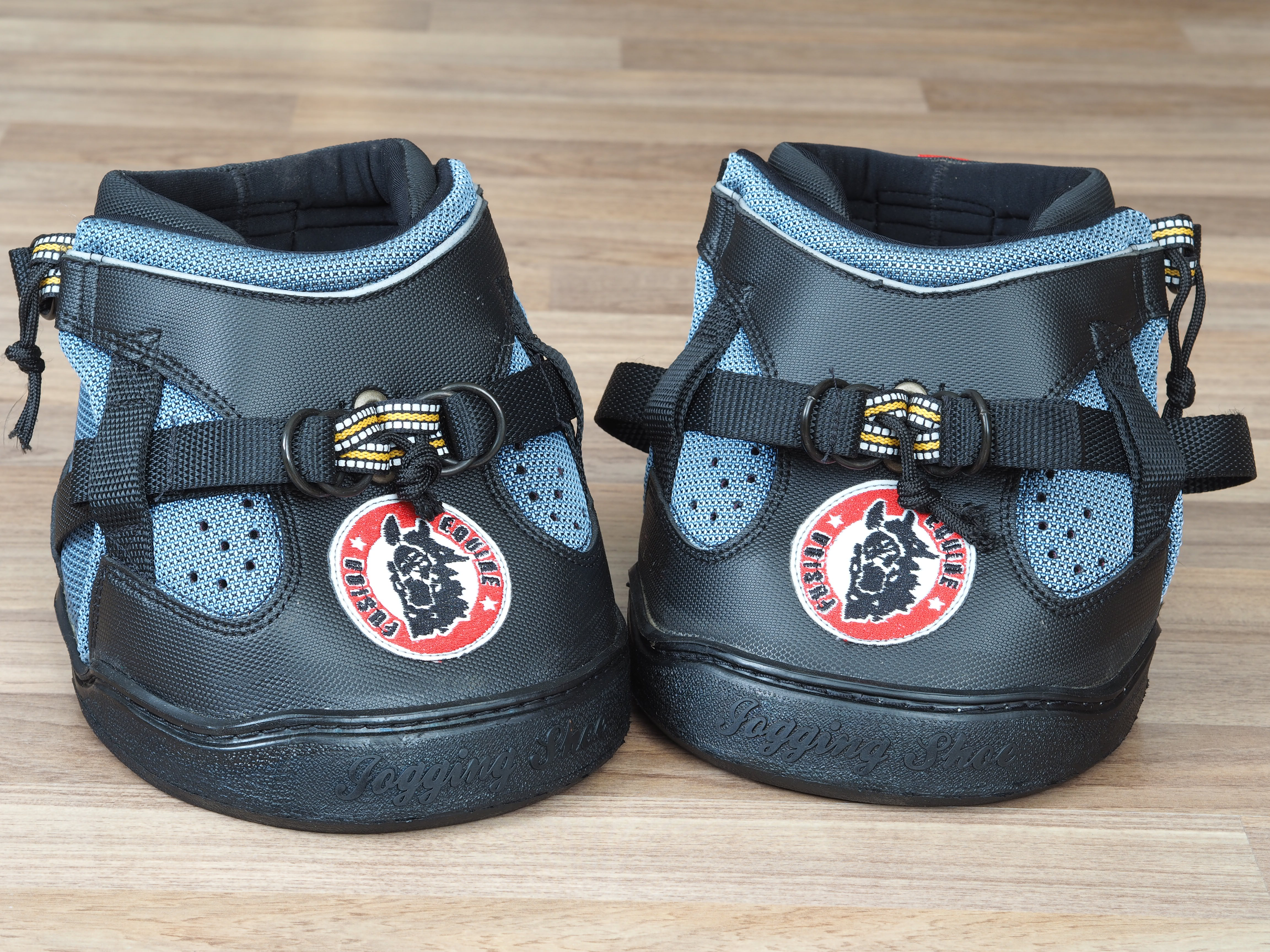 One pair of hoof boots.